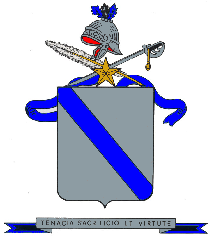 Coat of Arms of the Administration Corps (year 1974); Italian Army.